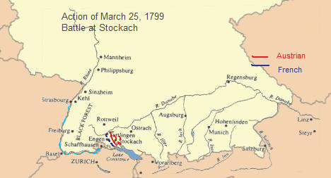 Disposition of Troops in the vicinity of Stockach and Engen, March 1799